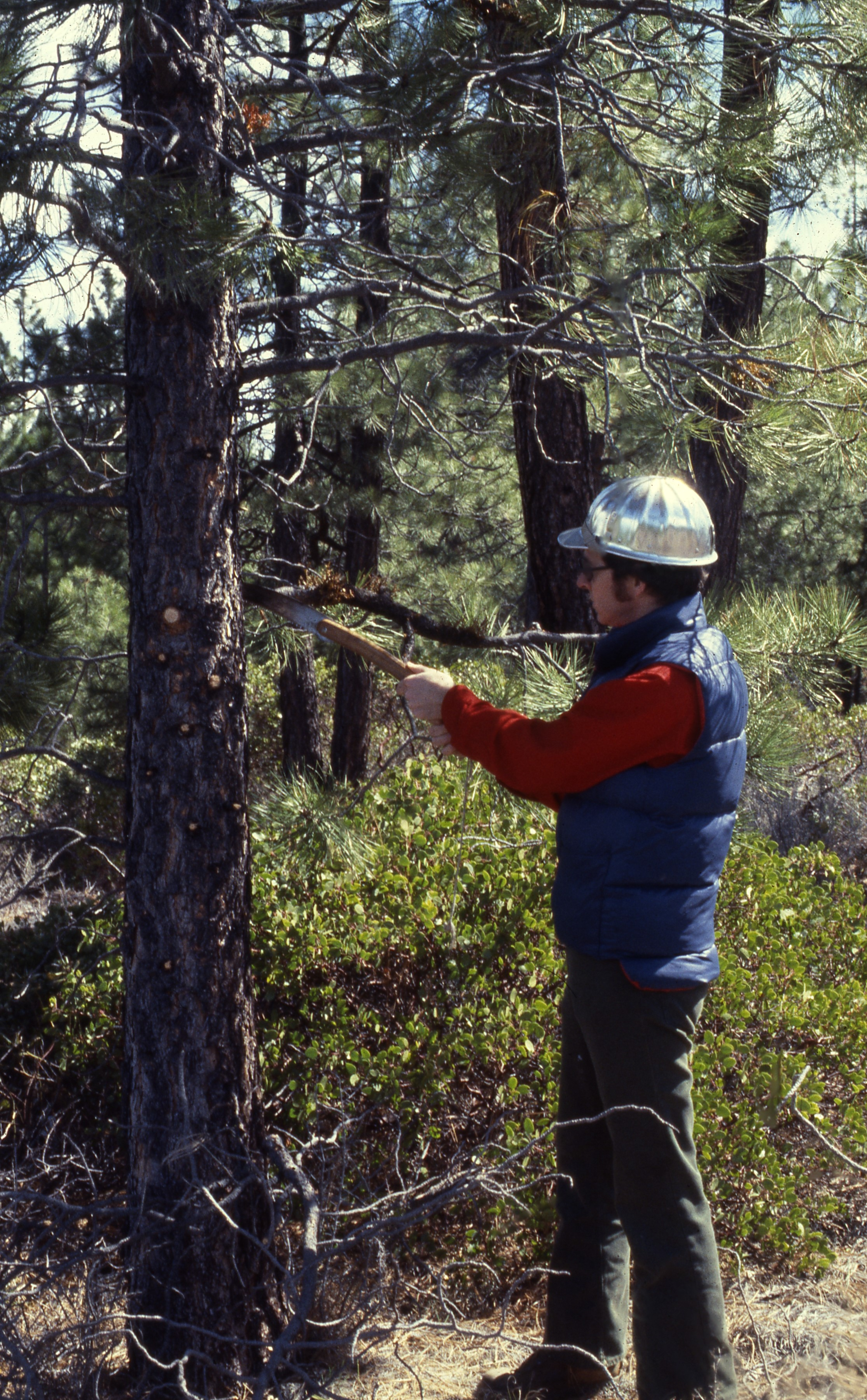 Jim Hadfield limbing pine. Photo by: Unknown Date: 1978 Credit: USDA Forest Service, Region 6, State and Private Forestry, Forest Health Protection. Collection: Region 6, Forest Health Protection slide collection; Regional Office, Portland, Oregon. Image provided by USDA Forest Service, Region 6, State and Private Forestry, Forest Health Protection: This image or file is a work of a United States Department of Agriculture employee, taken or made as part of that person's official duties. As a work of the U.S. federal government, the image is in the public domain.